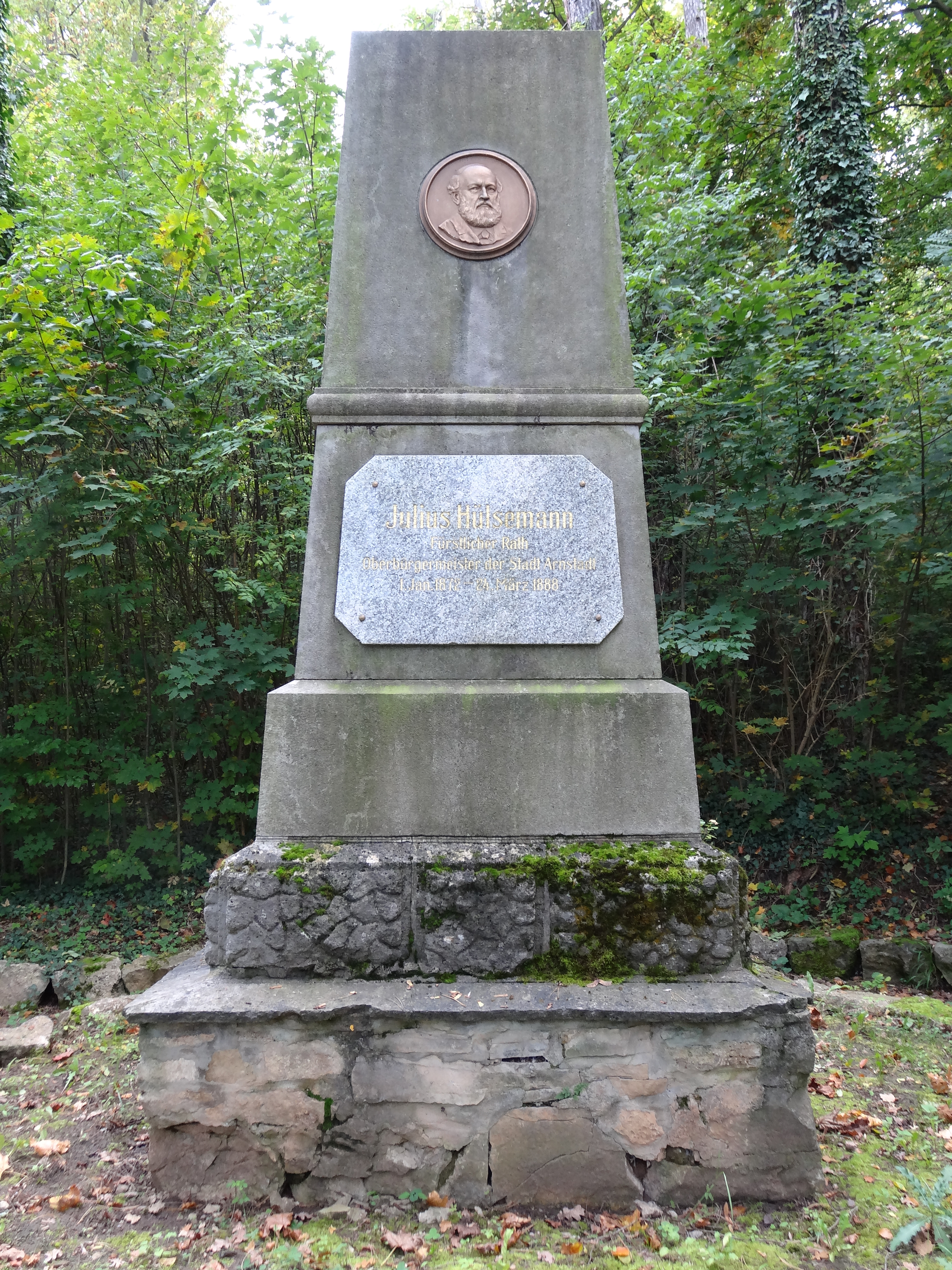 Memorial for Julius Hülsemann in Arnstadt, Thuringia, Germany